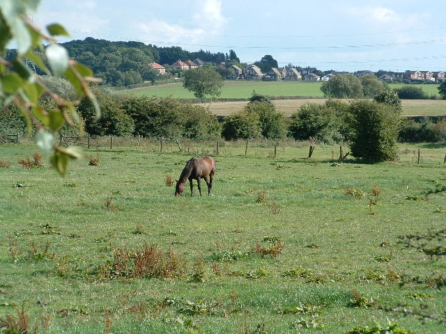 Fields near Goody Cross A view of Great Preston, looking South East from Little Preston. Goody Cross cottages are just off screen at the left of the image.